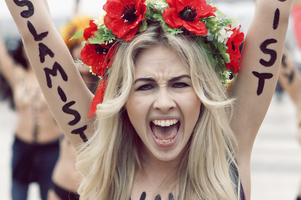 Femen protest in support to Aliaa Magda Elmahdy